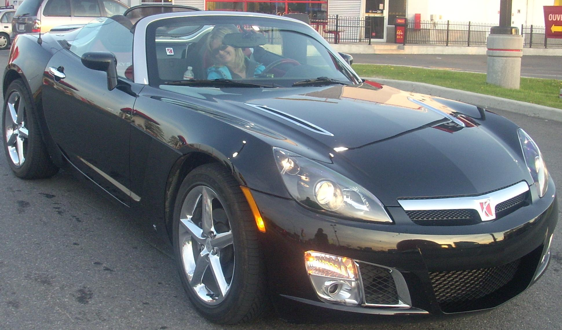 2007-2009 Saturn Sky photographed in Montreal, Quebec, Canada.